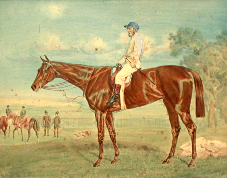 Emil Adam (1843-1924) - THE RACEHORSE 'KINCSEM' IN THE PADDOCK AT BADEN-BADEN AFTER WINNING THE CROSSER PREIS, WITH MADDEN UP